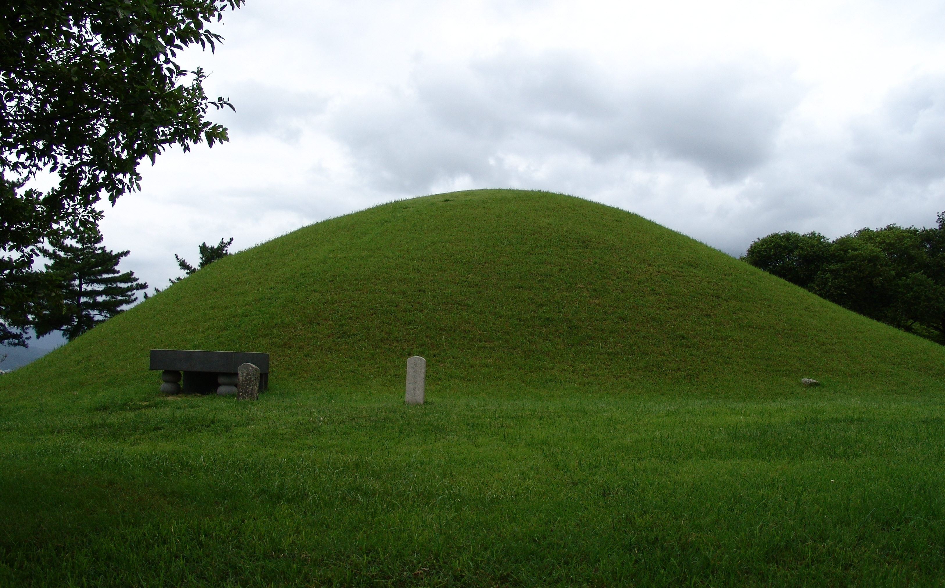 Royal tomb of King Jinpyeong of Silla located in Gyeongju, North Gyeongsang, South Korea.